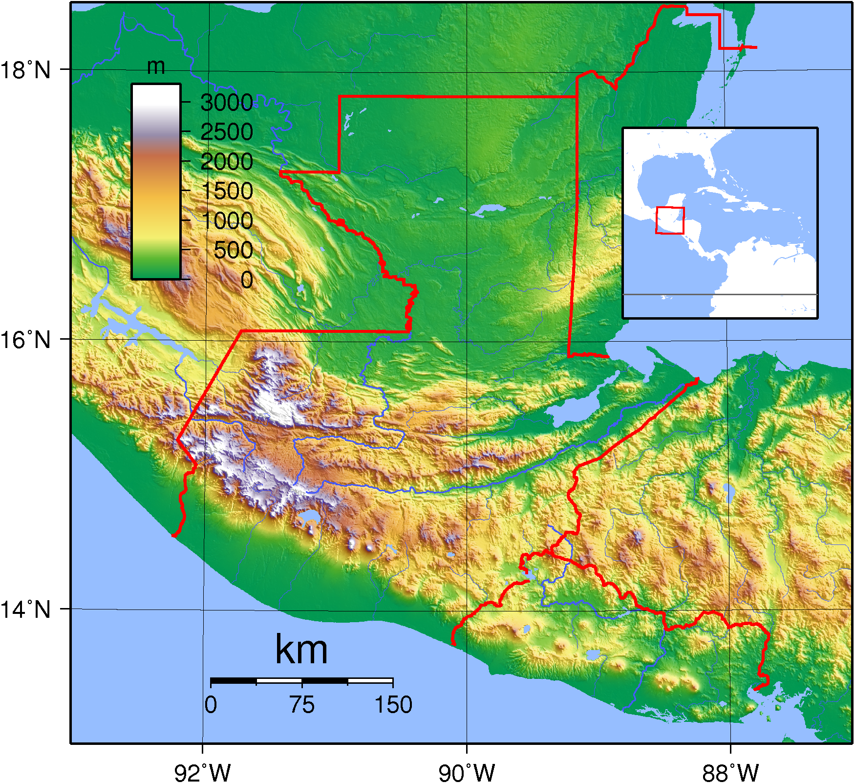 Topographic map of Guatemala. Created with GMT from Shuttle Radar Topography Mission data.